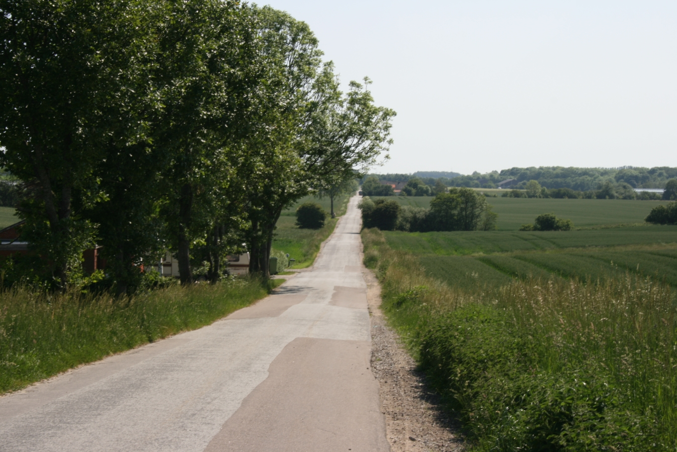 The Danish, so-called "survejor-roads" were created by surveyors at the beginning of the 19th century during the enclosure. They are characterized by their straight course.